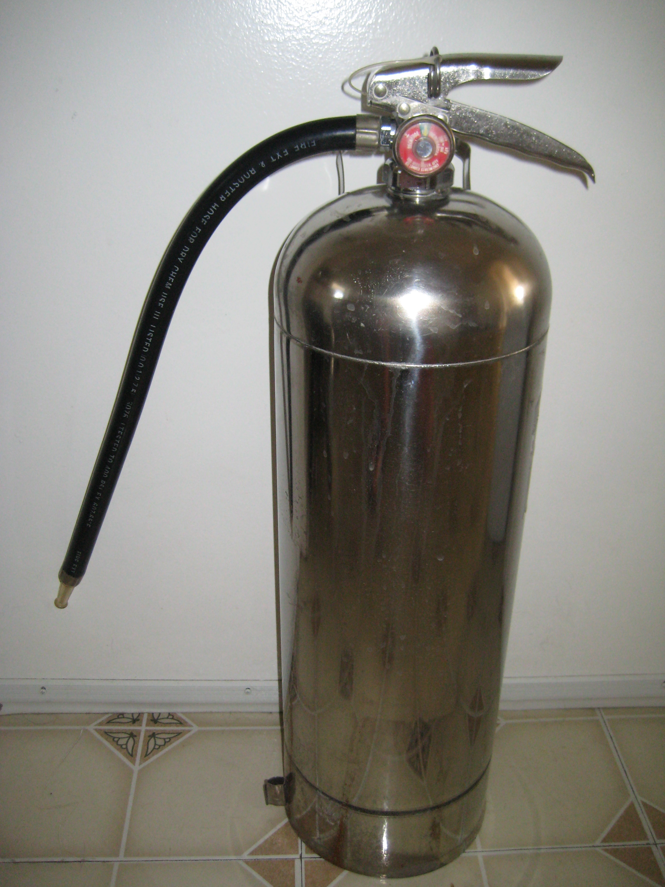 2.5 gallon air pressurized water extinguisher.